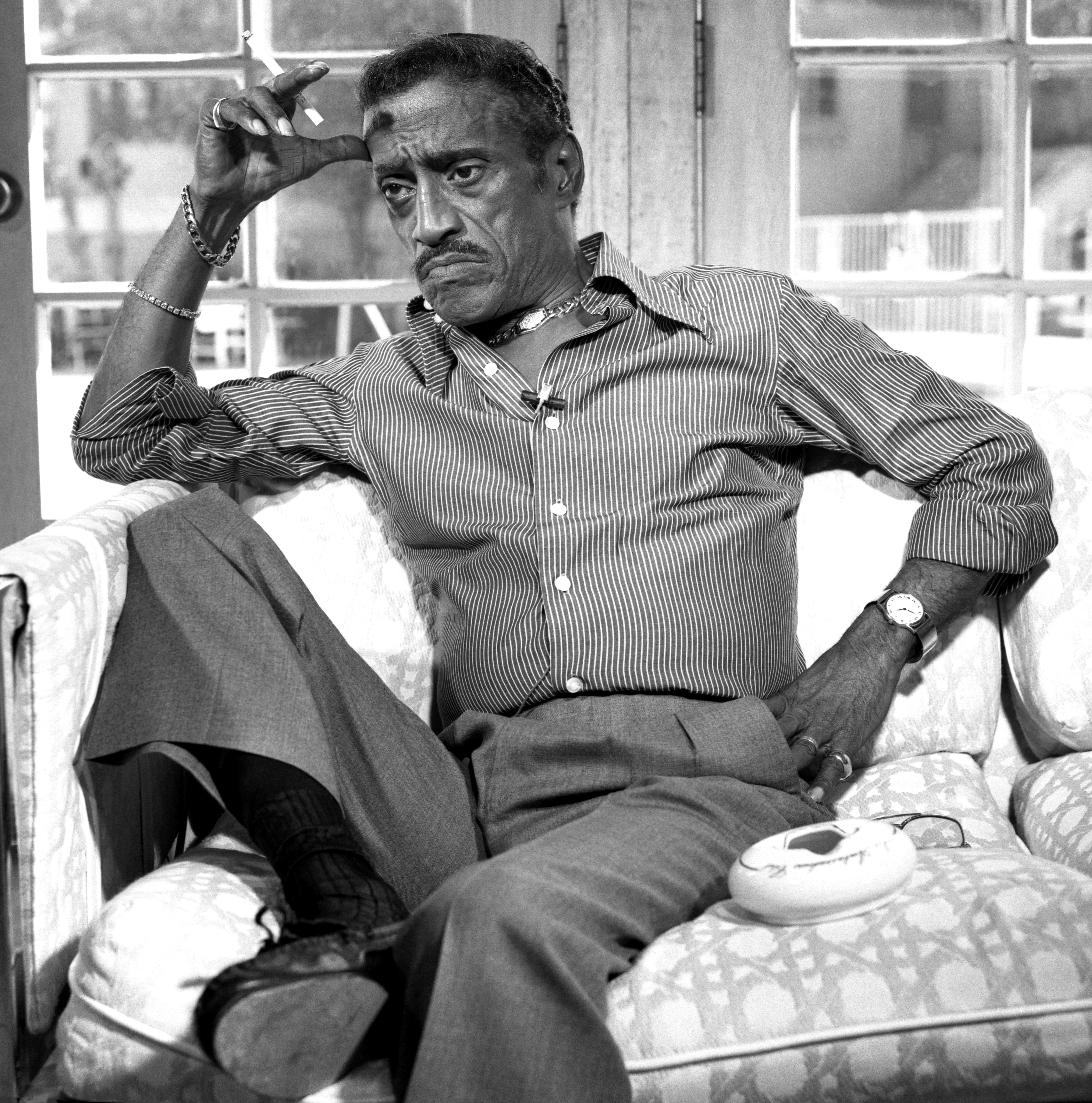 portrait of Sammy Davis, Jr.